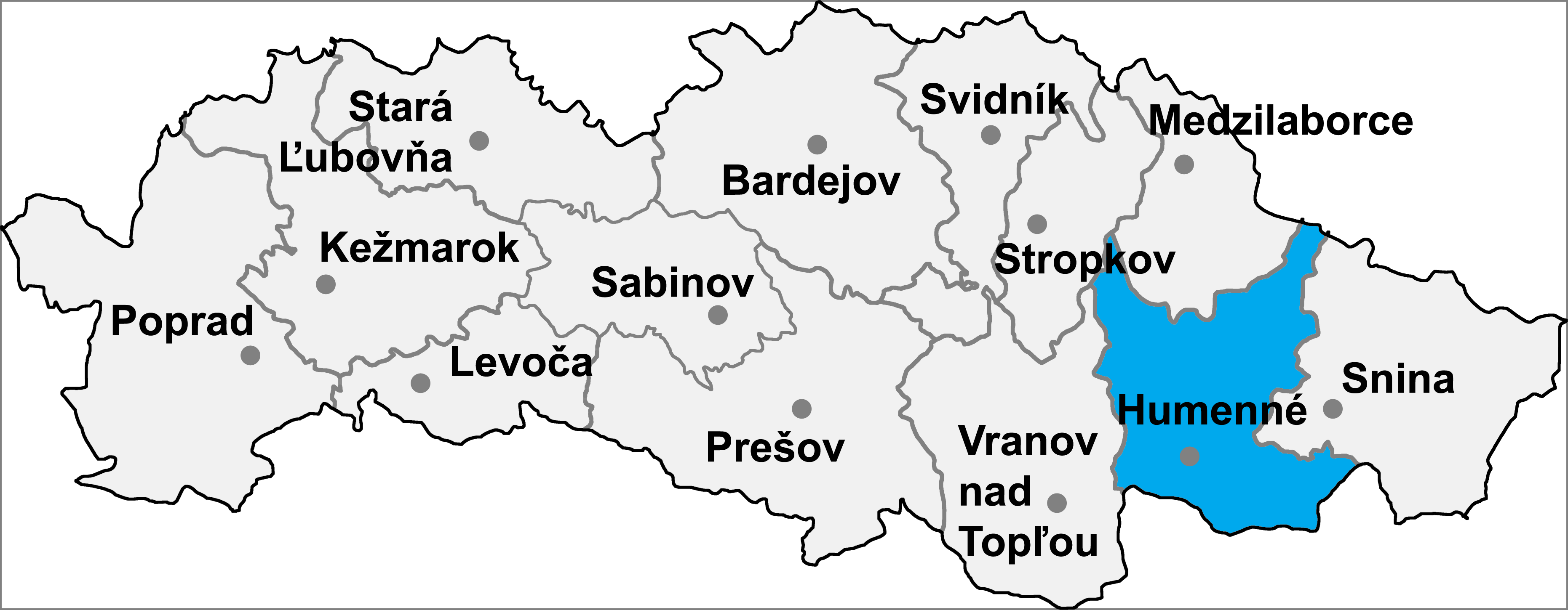 Map of the Prešov region (Prešovský kraj) in Slovakia, district (okres) of Humenné highlighted